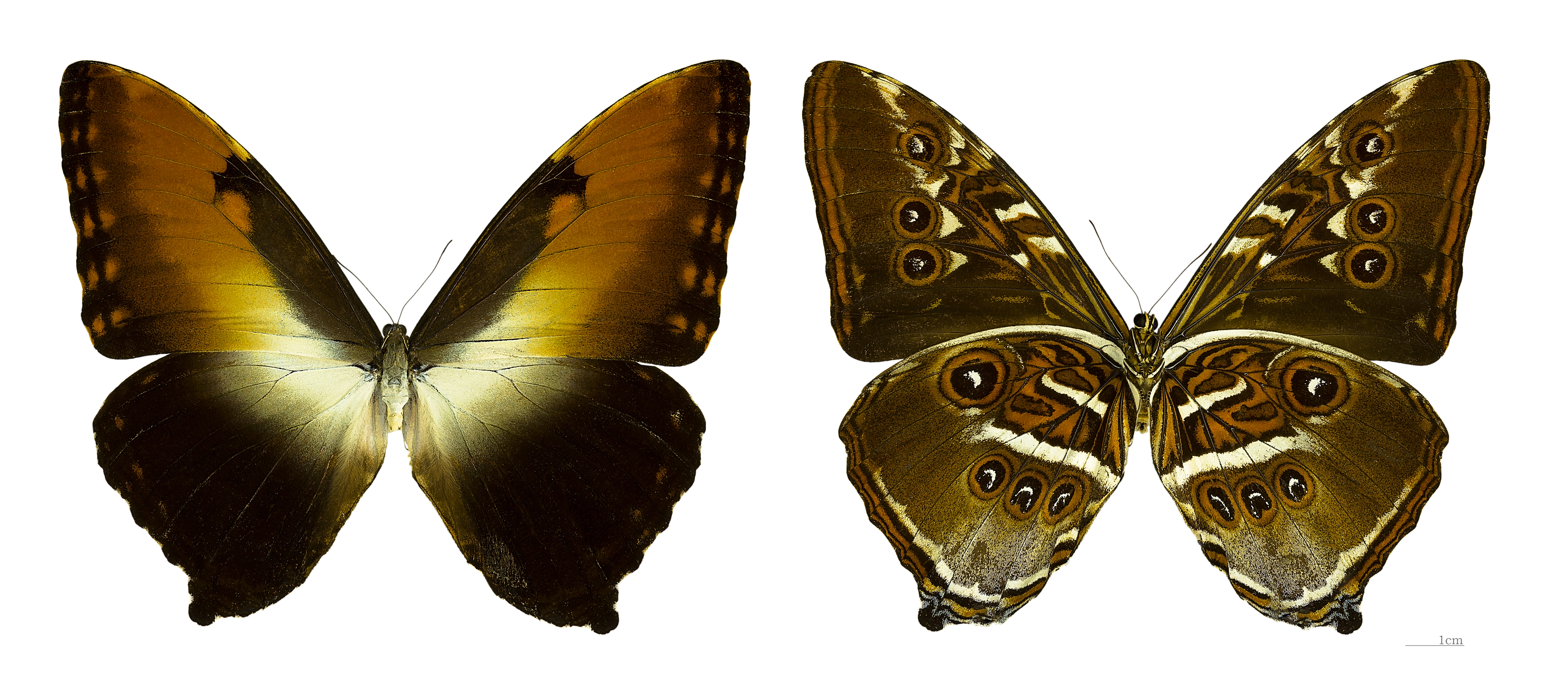 Sunset Morpho - Two views of same specimen